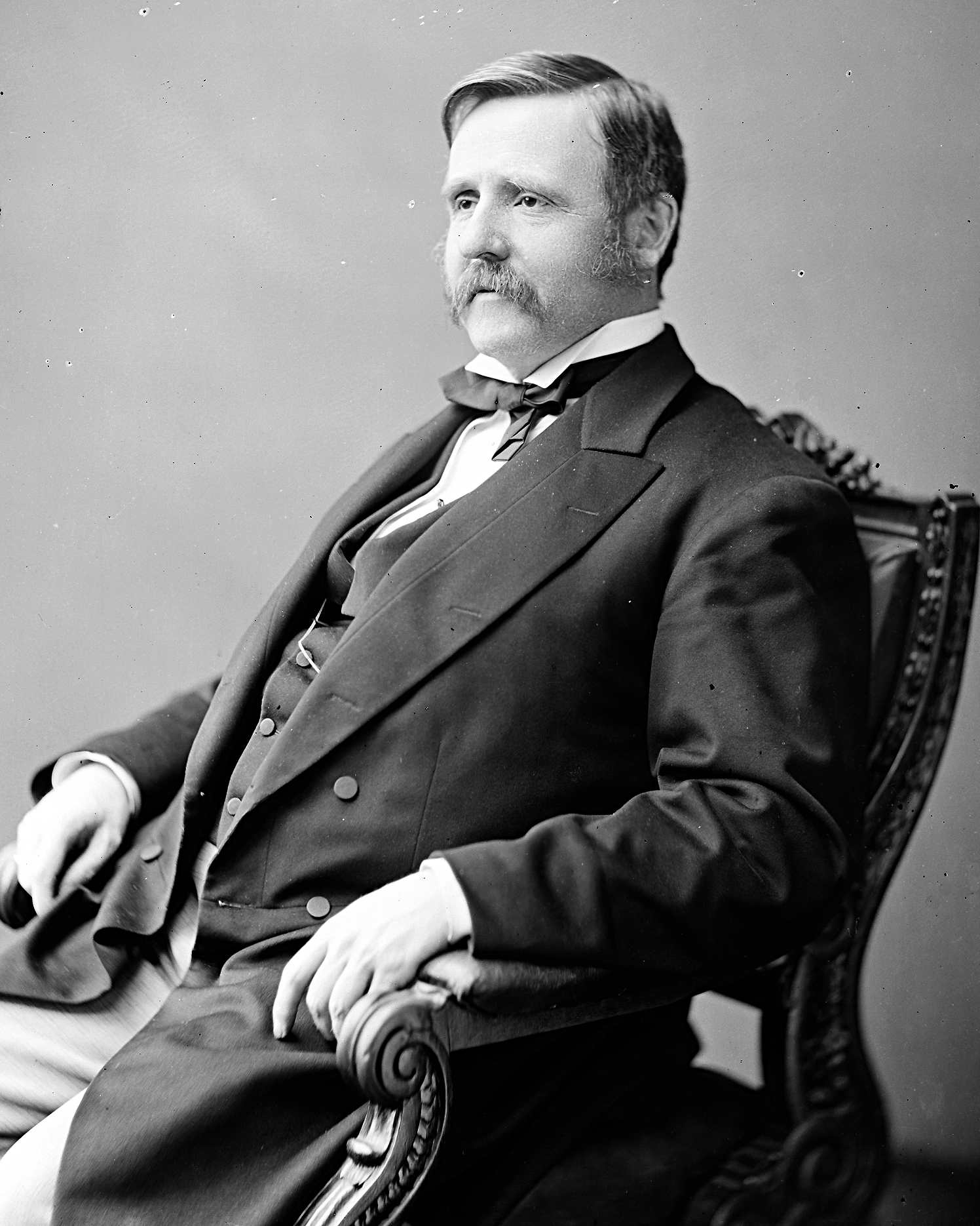 Charles Perkins Thompson, US Representative from Massachusetts